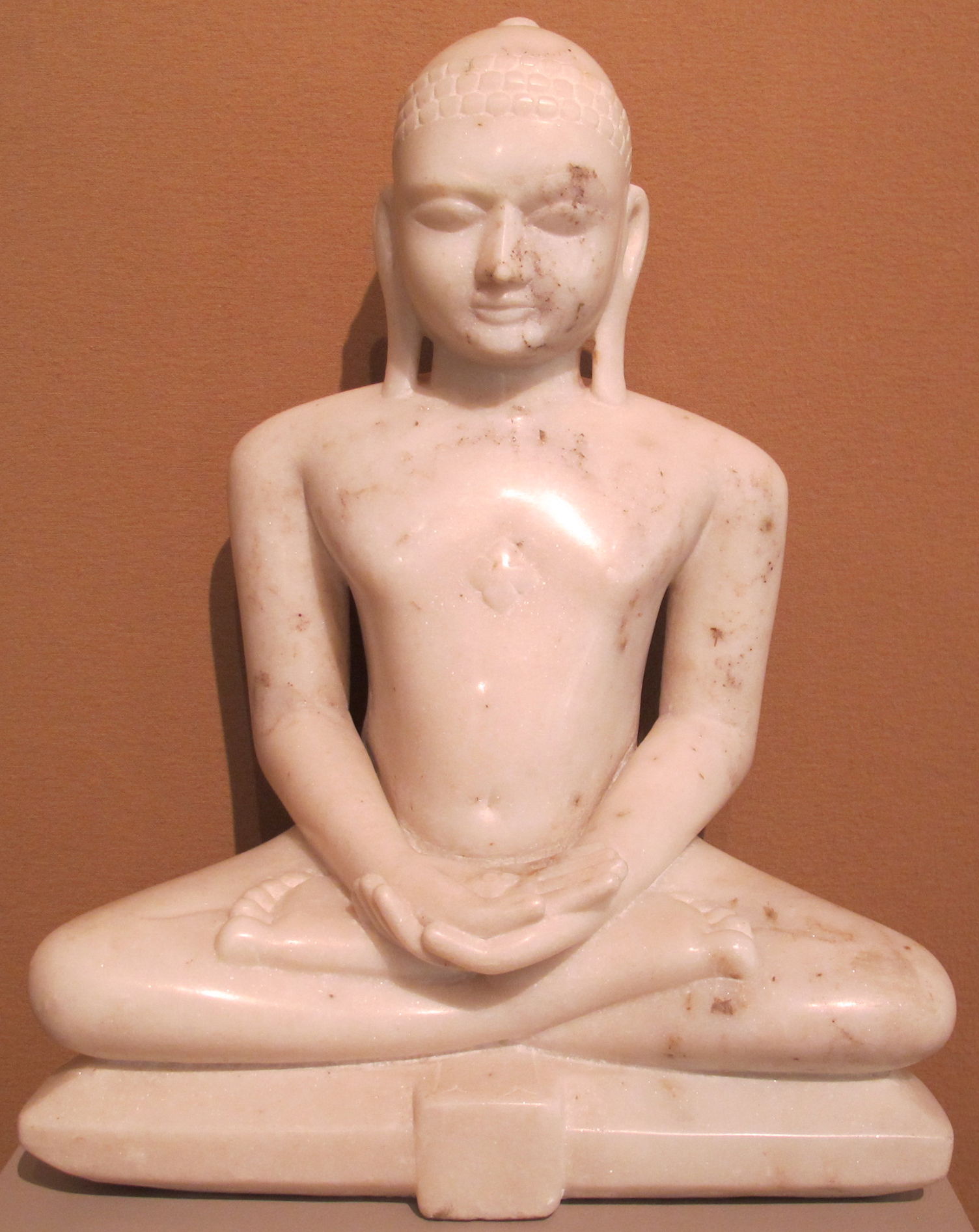 Tirthankar seduto, forse deccan, XVIII sec